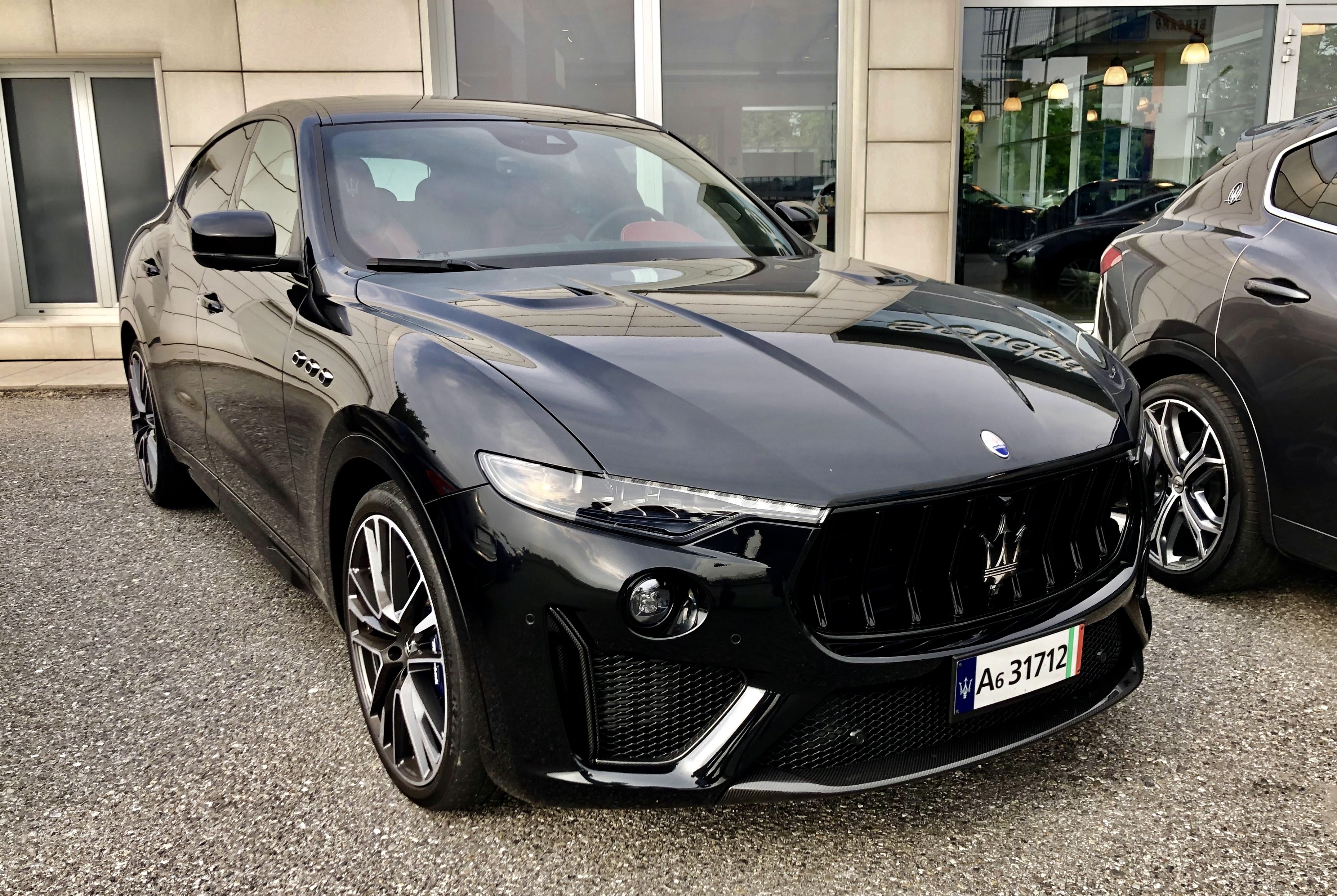 2019 Maserati Levante Trofeo V8 3,8 L Ferrari TwinTurbo